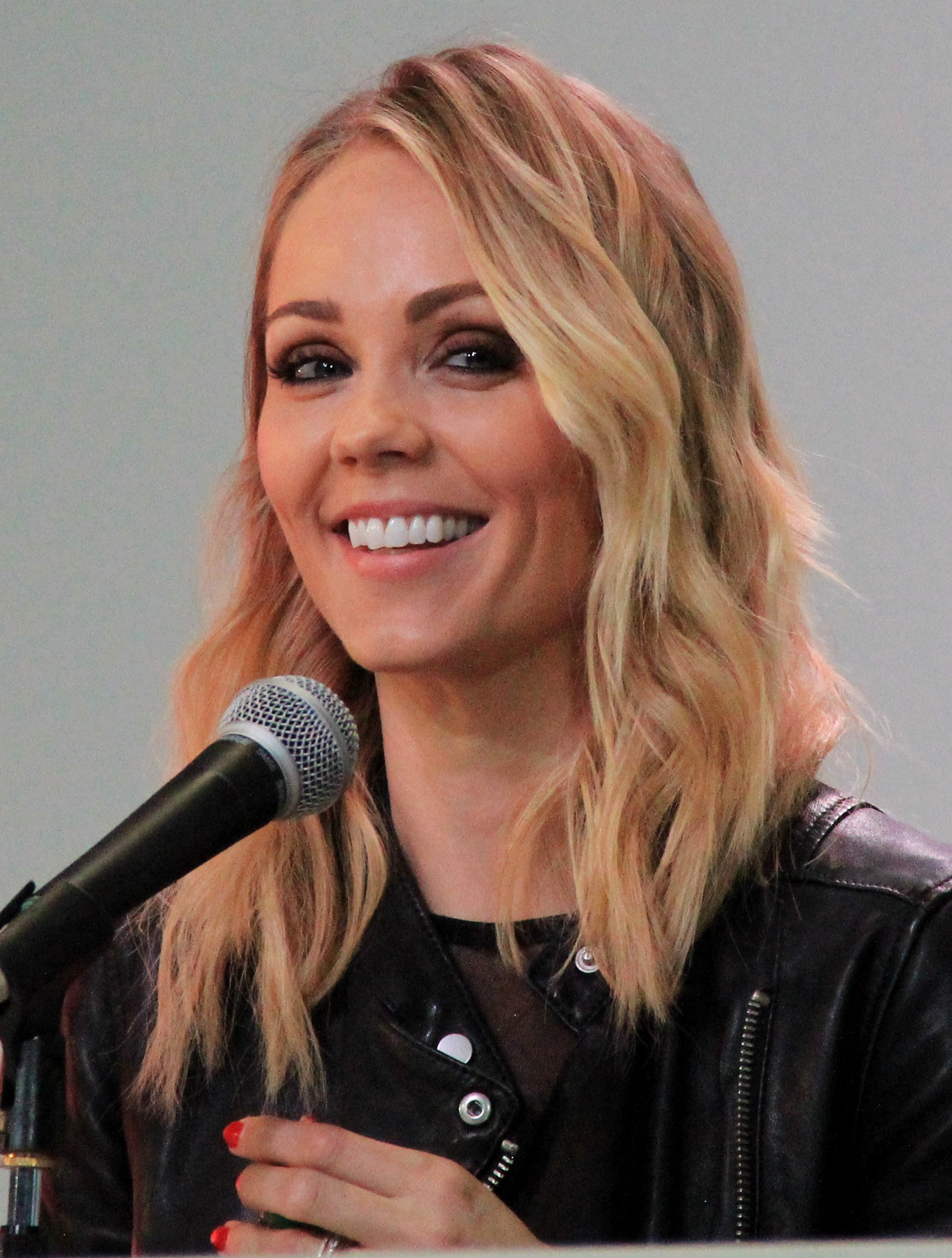 IMG_6556 Taken at the 2016 Space City Comic Con in Houston, Texas.